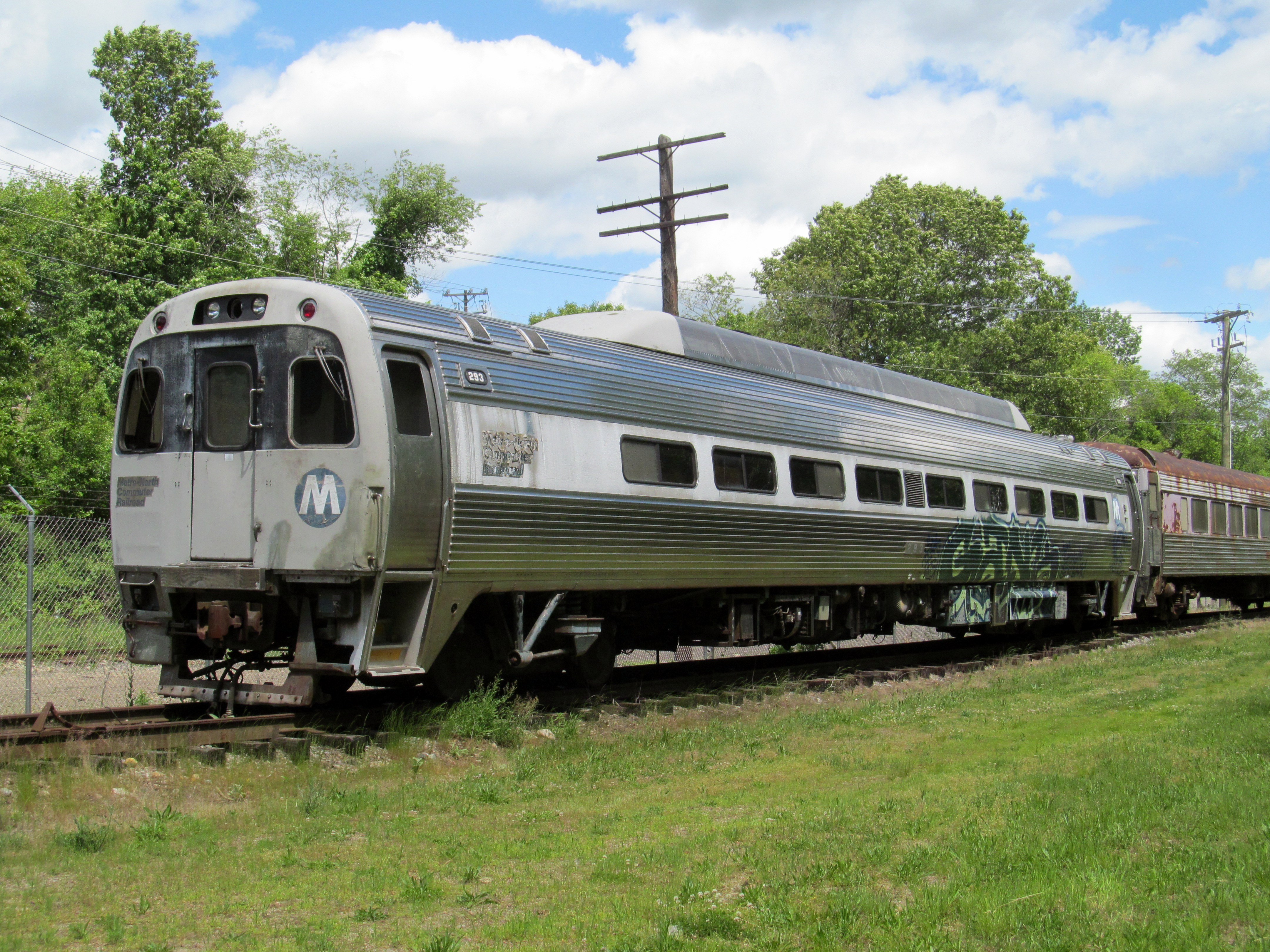 Metro-North Railroad #293, a Budd SPV-2000, at Connecticut Eastern Railroad Museum in June 2017